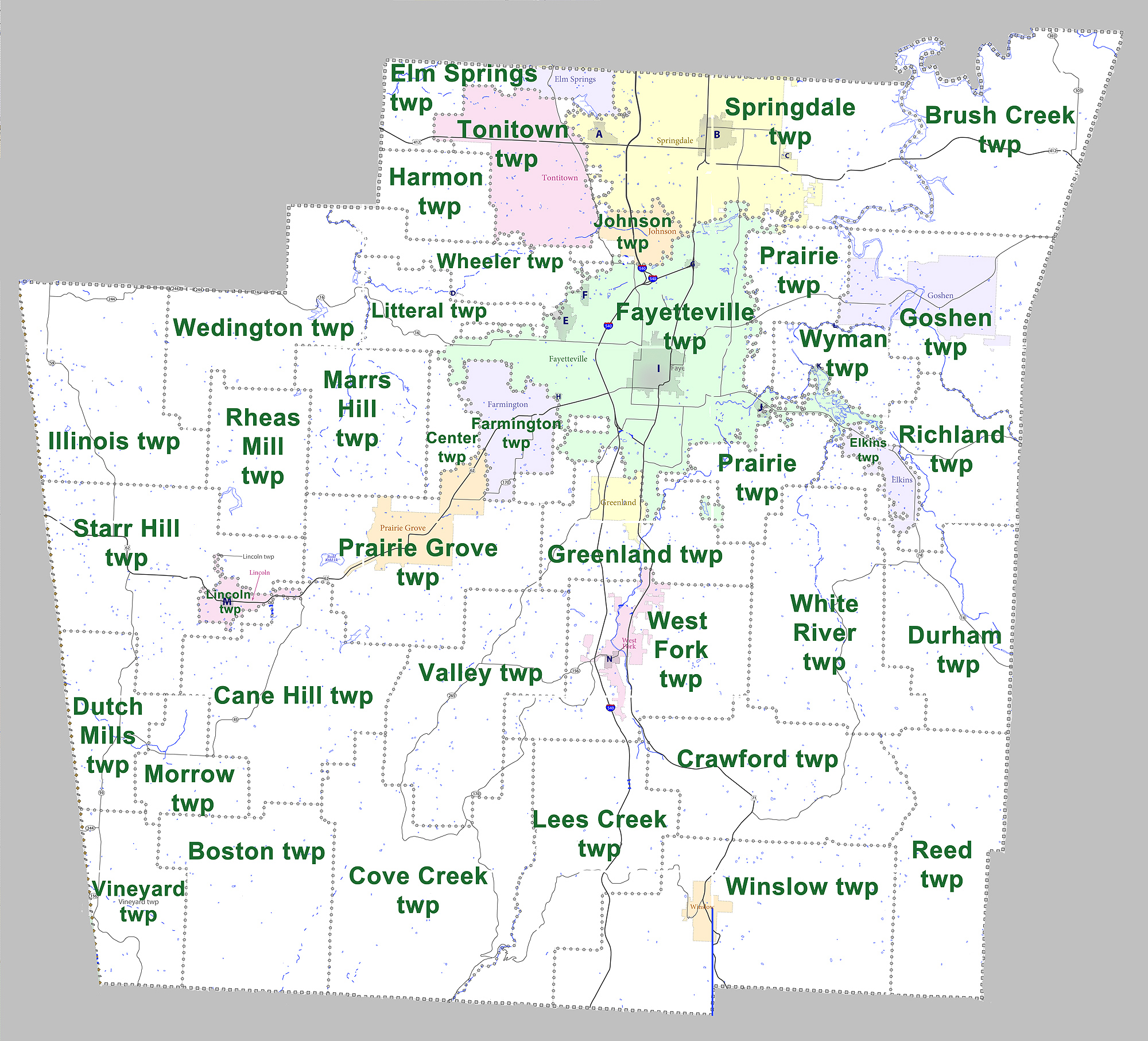 Large map showing townships in Washington County, Arkansas. Modified from US census map (for 2010 census) for Washington County, Arkansas